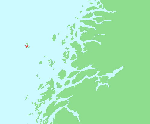 Locator map of Sanda, Nordland, Norway